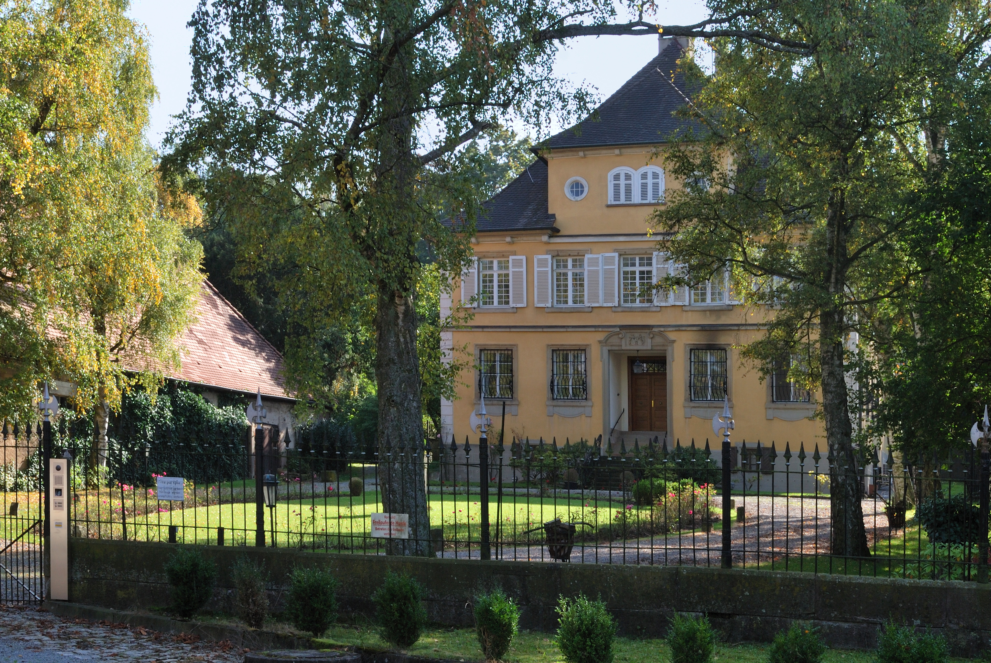 Castle in Hochdorf in the German Federal State Baden-Württemberg.